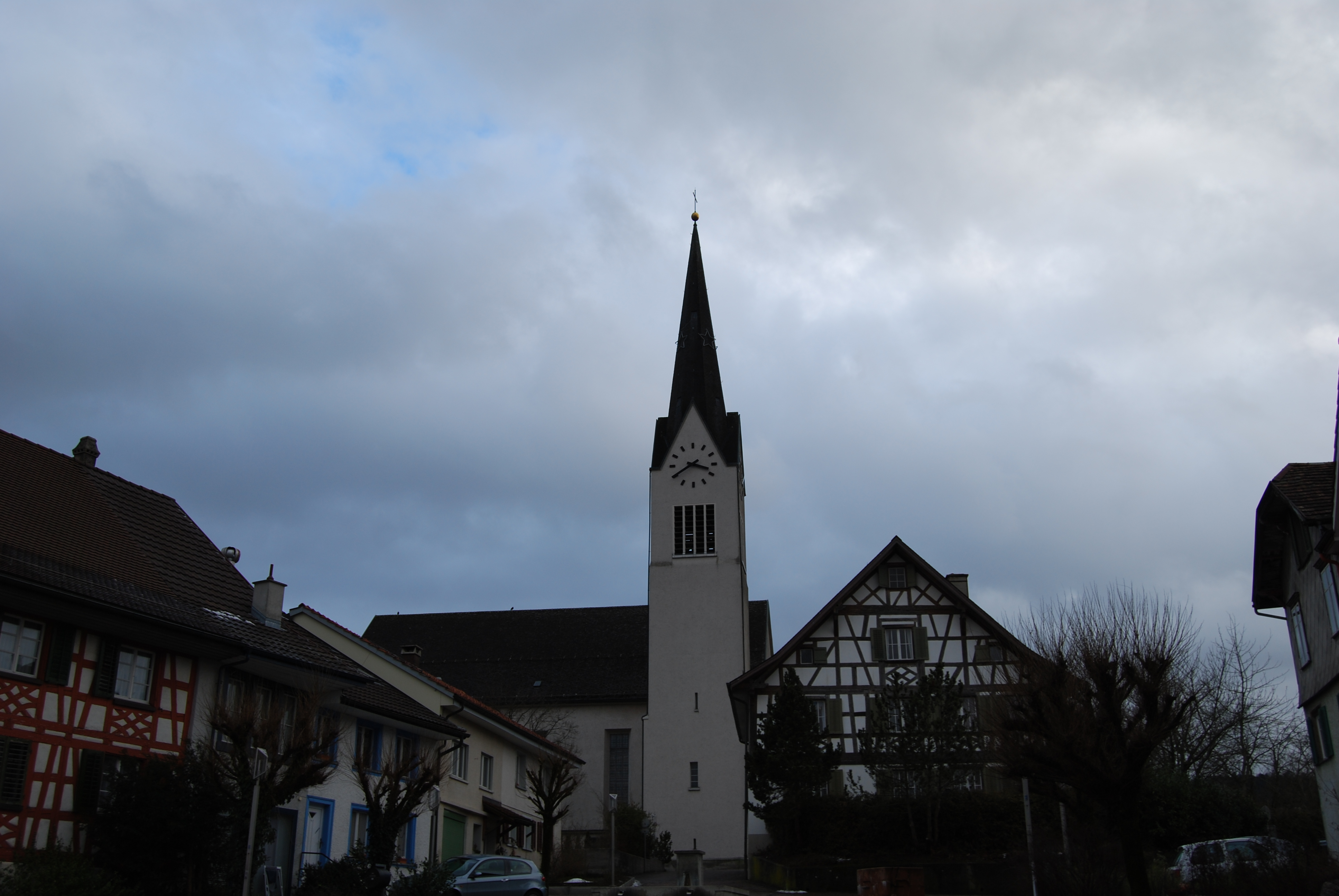 Catholic church of Aadorf, canton of Thurgovia, SwitzerlandEsperanto: Katolika preĝejo de Aadorf, Kantono Turgovio, Svislando